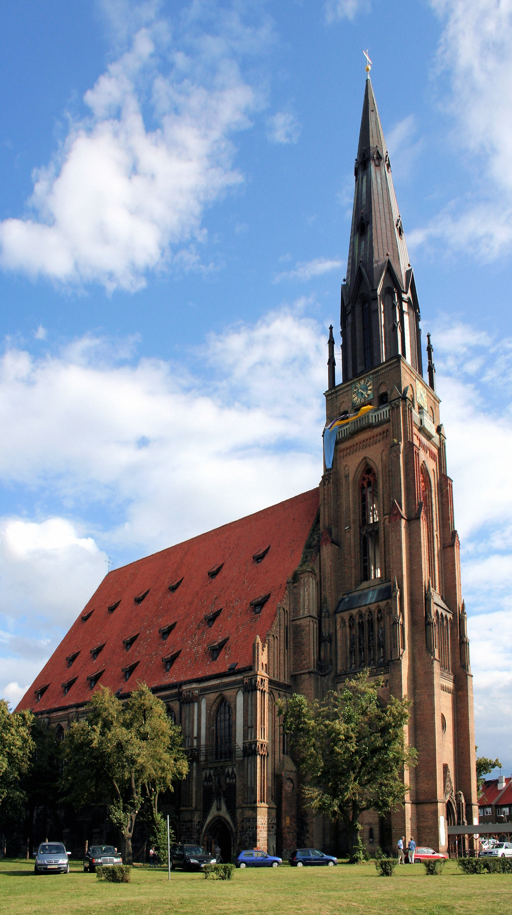 Church of St. Mary in Chojna, West Pomeranian Voivodeship, Poland